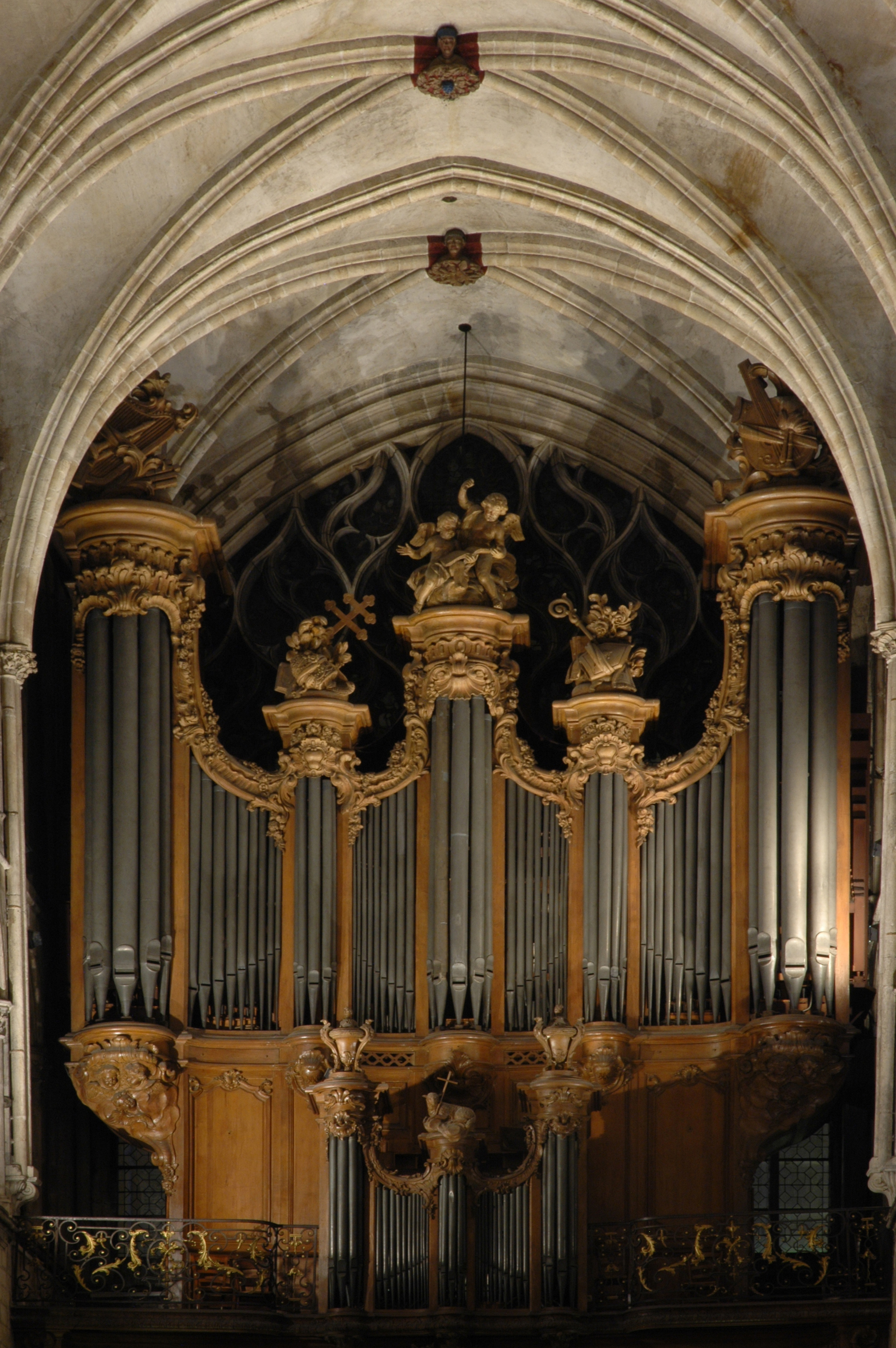 Great pipe organ in the Saint-Séverin church in Paris, France.